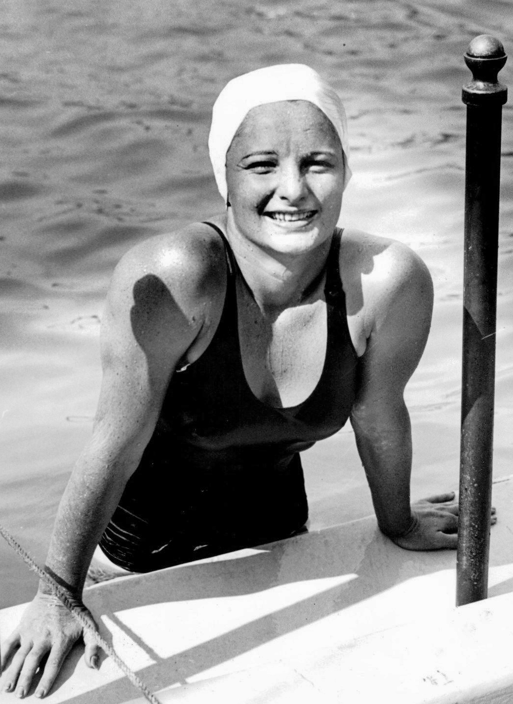 1935 Vintage Photo National Champ 300m medley 220yd breaststroke Katherine Rawls